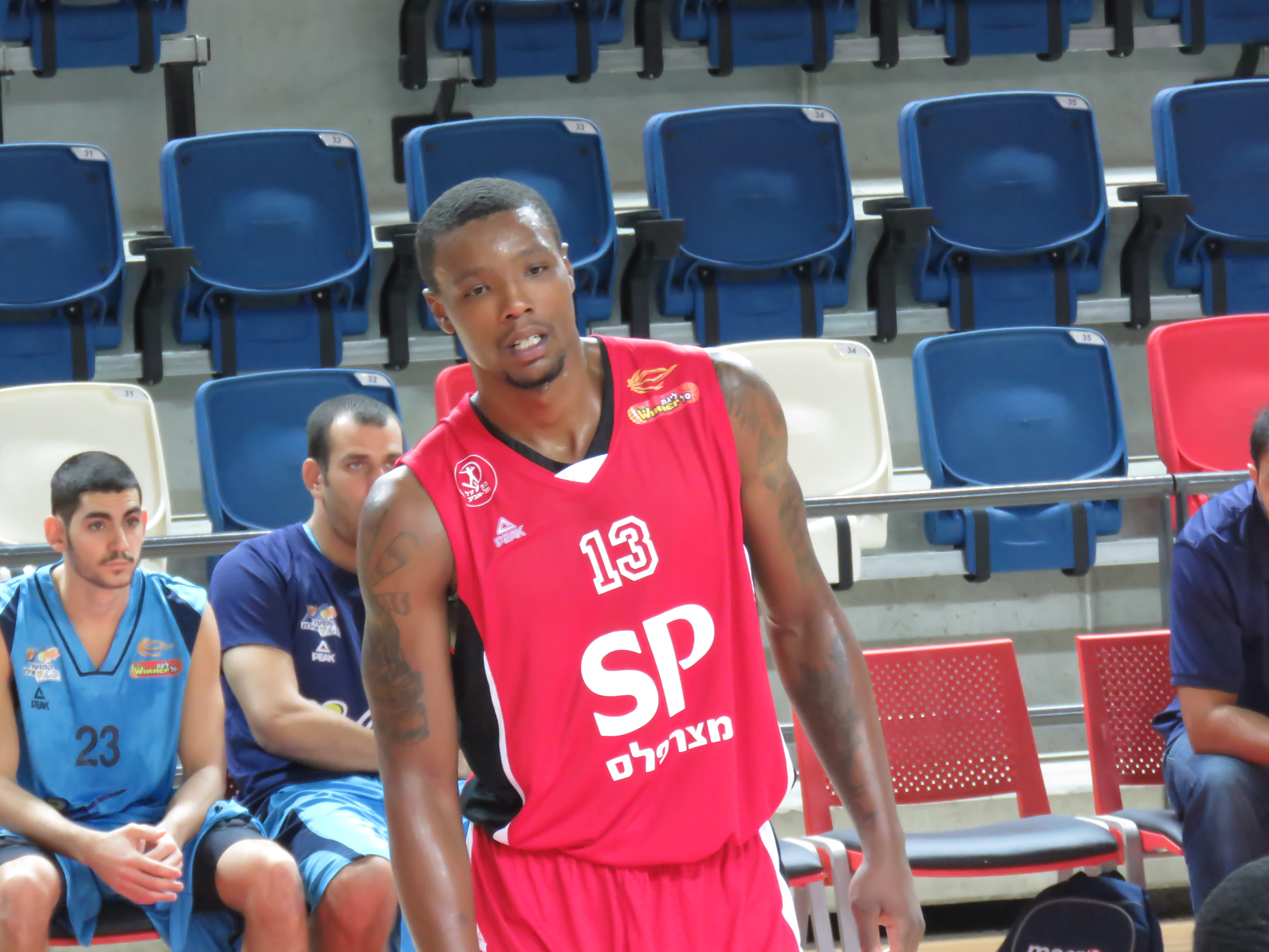 Hapoel Tel Aviv vs. Hapoel Eilat - Pre-season friendly, Septeber 11, 2015